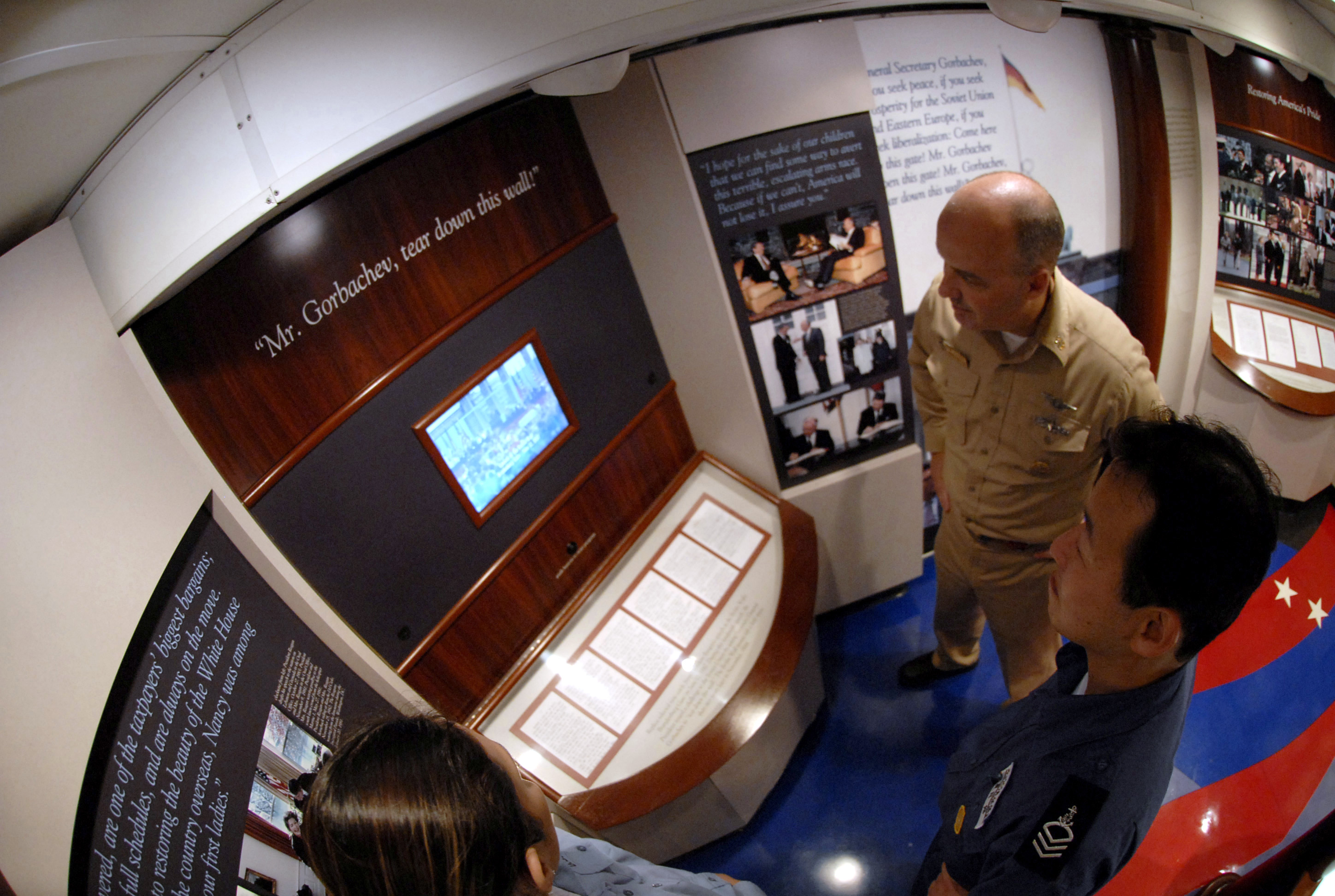 PACIFIC OCEAN (March 16, 2007) - Command Master Chief (CMDCM) Jim Delozier gives JS Myoko's (DDG 175) CMDCM Osamu Natsume, Japan Maritime Self Defense Force (JMSDF), a tour of the USS Ronald Reagan (CVN 76) memorial museum. The Ronald Reagan Museum contains pictures and items pertaining to important times in President Reagan’s life and presidential career. Ronald Reagan Carrier Strike Group is underway in support of 7th Fleet operations. U.S. Navy photo by Mass Communication Specialist 3rd Class Gary Prill (RELEASED)